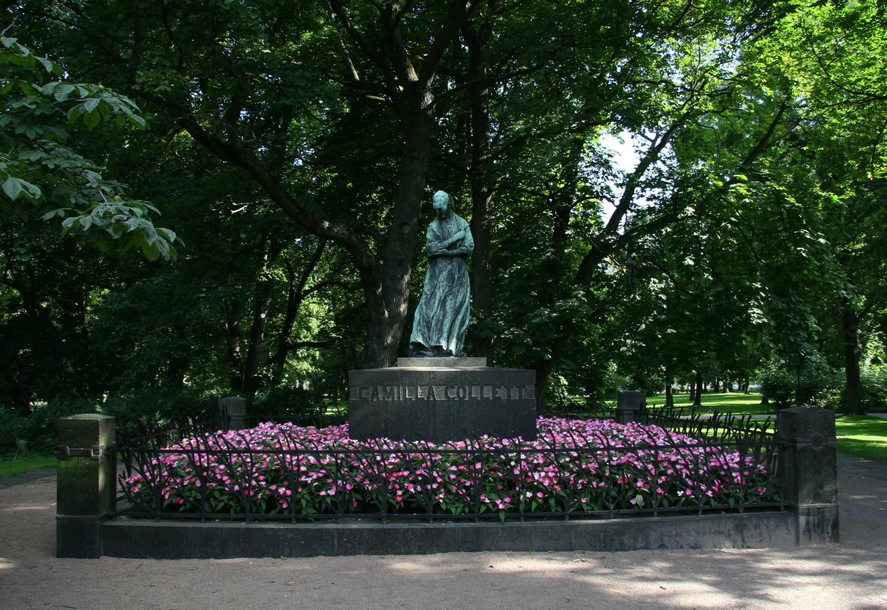 Statue of Camilla Collett in Oslo, Norway